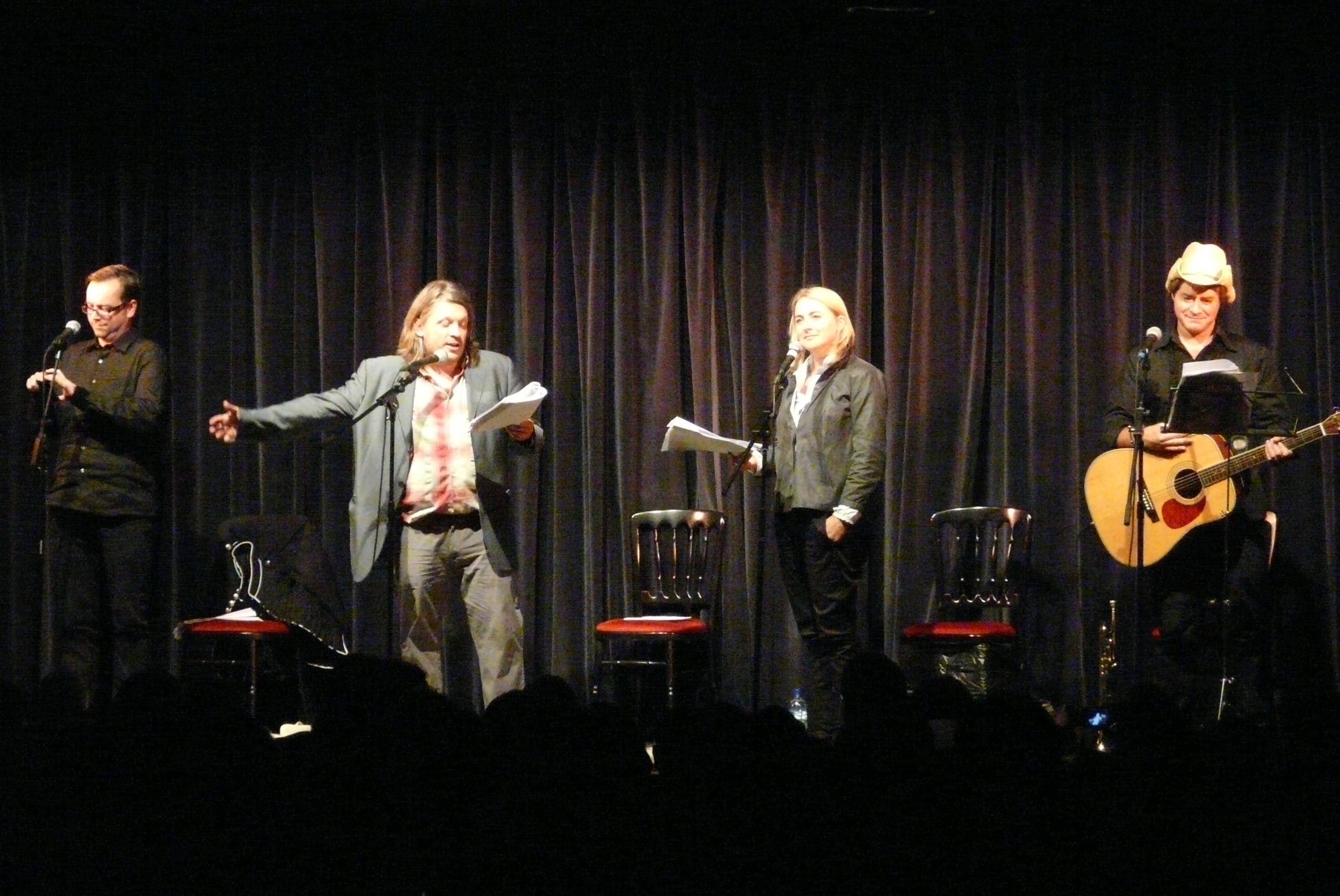 The final performance of As It Occurs To Me at Leicester Square Theatre. L-r: Dan Tetsell, Richard Herring, Emma Kennedy, Christian Reilly.